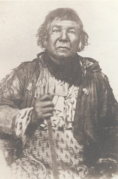 Chief Shabbona (Sha-bon-na) of the Potawatomi tribe, played a role in the Black Hawk War.